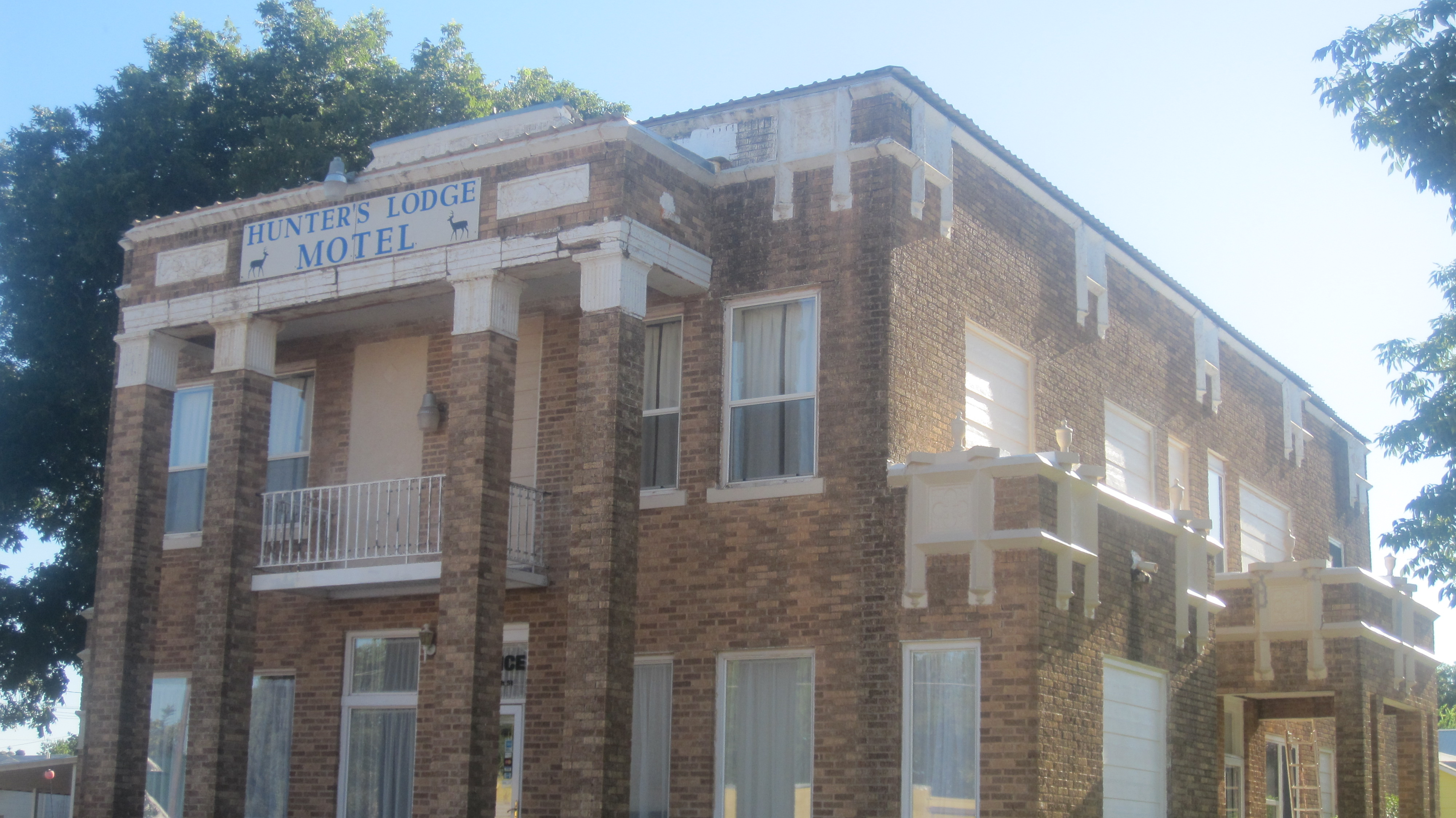 I took photo with Canon camera in Paducah, TX.